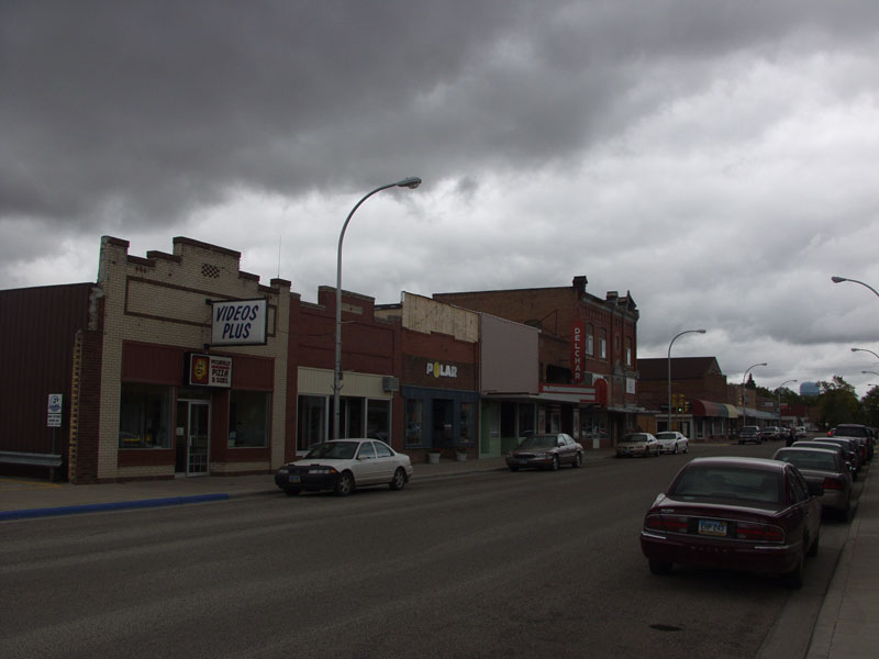 Mayville, North Dakota. From